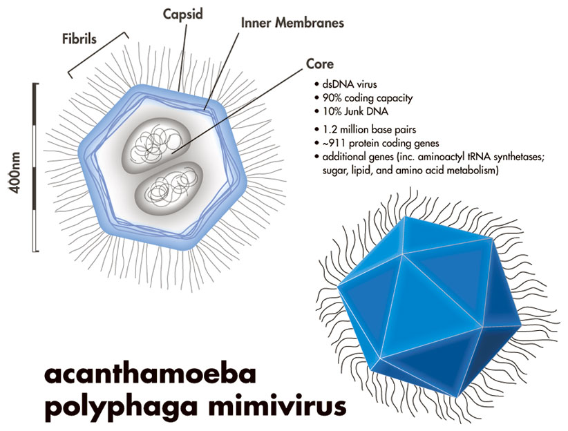 An infographic / illustration of mimivirus, based upon various web-based sources, including and wikipedia